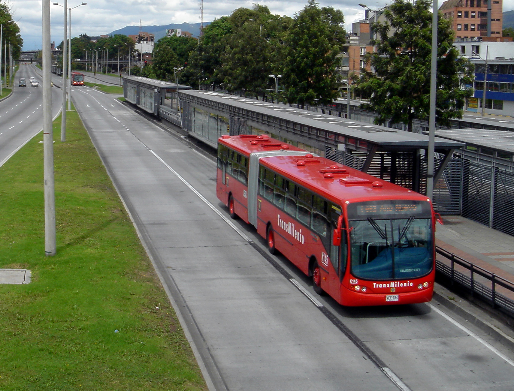 TransMilenio BRT